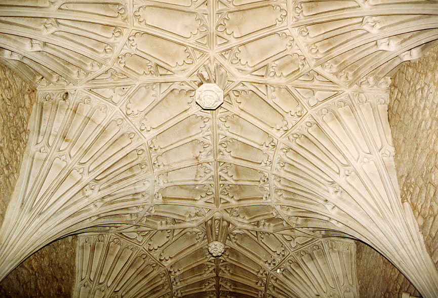 St Mary, Ottery St Mary, Devon - Roof